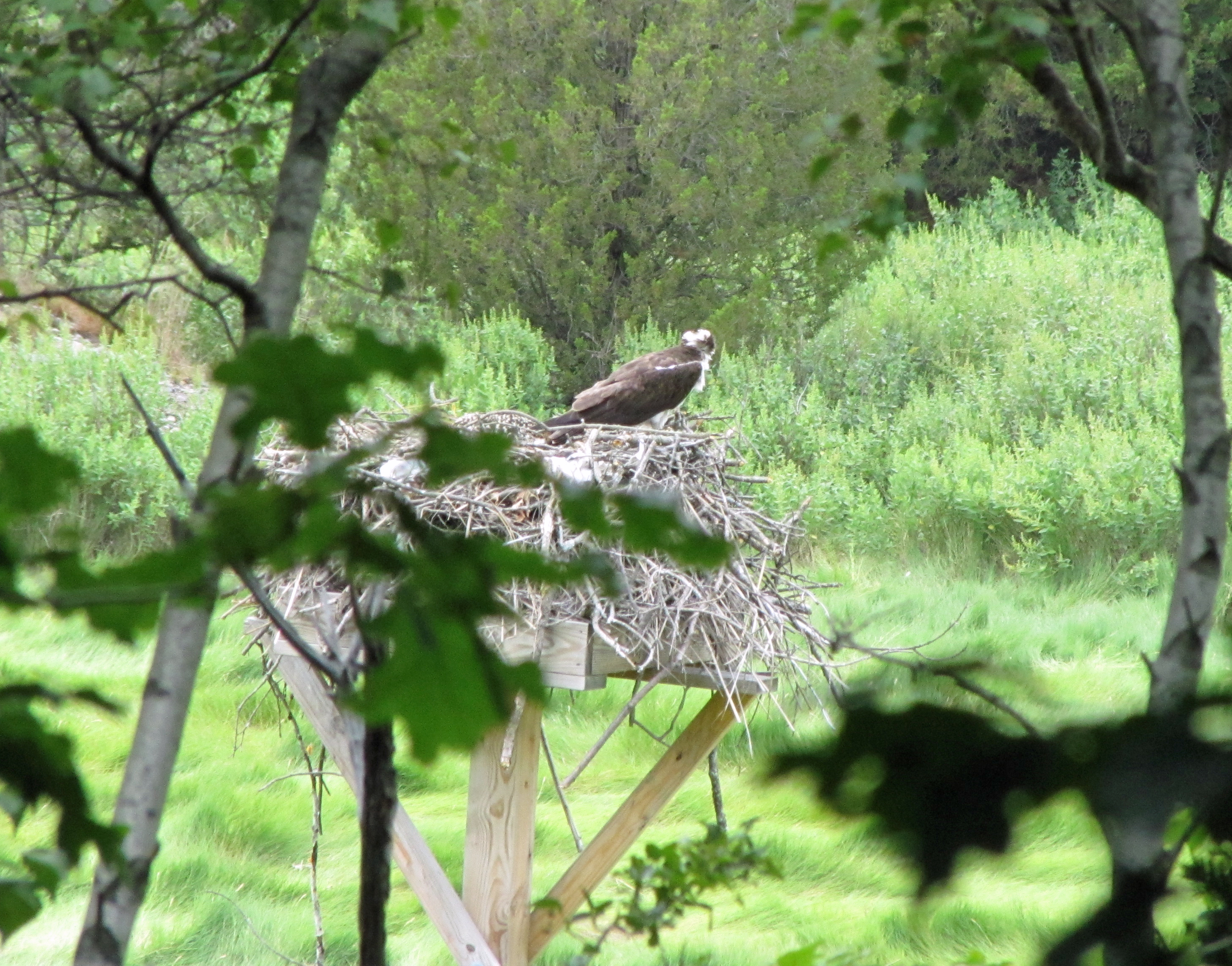 Photo of Osprey nesting in platform on south side Beal's Cove in Bare Cove Park, Hingham, Massachusetts. The nest is visible from the Back River Path.